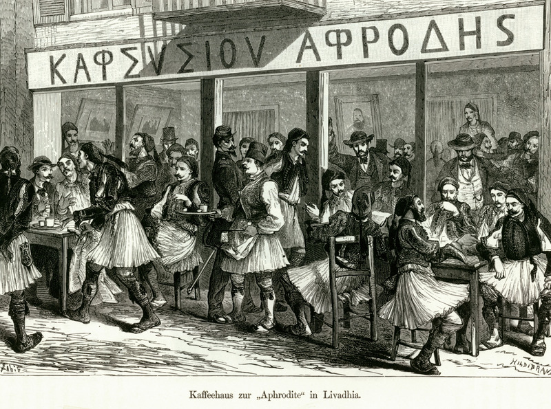 Amand Schweiger von Lerchenfeld. Griechenland in Wort und Bild, Eine Schilderung des hellenischen Konigreiches, Leipzig, Heinrich Schmidt & Carl Günther, 1887